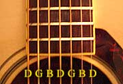 Standard open G major tuning for the Russian seven string guitar. Made by author.